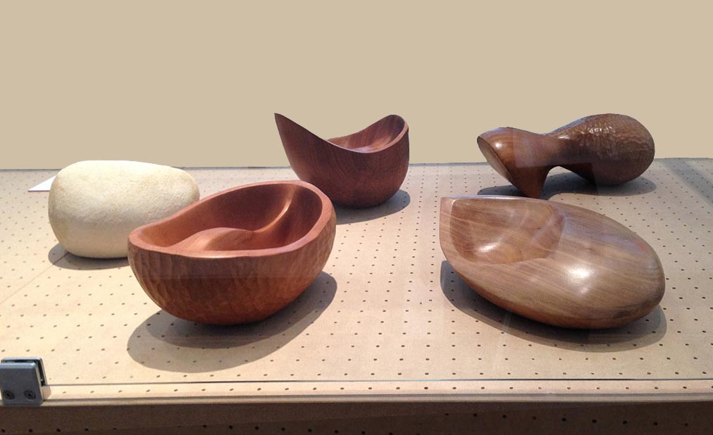 Several pieces in wood by Maria Carmen Riu De Martín